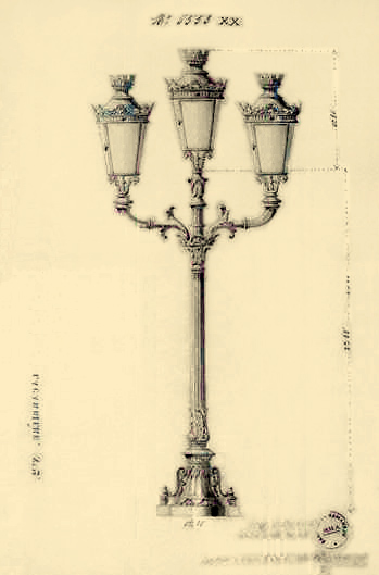 A triple-branched street lamp made by Lacarrière, 19th century, for illuminating the "Puente de España" over the Pasig River.